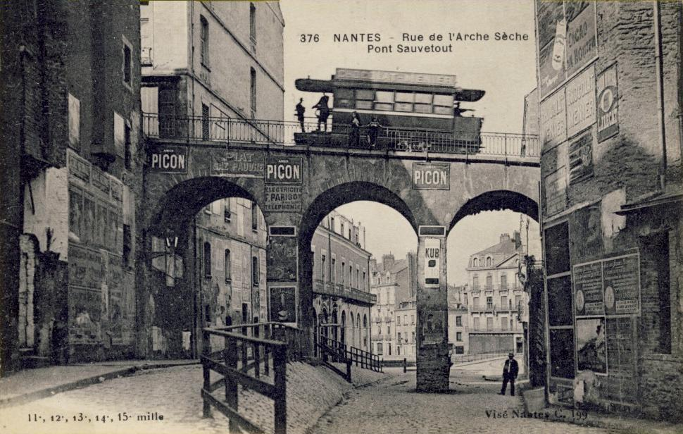 Mékarski compress air tram in Nantes (Loire-atlantique, France) on Pont-Sauvetout from vintage postcard published by Visé - Nantes around 1910.